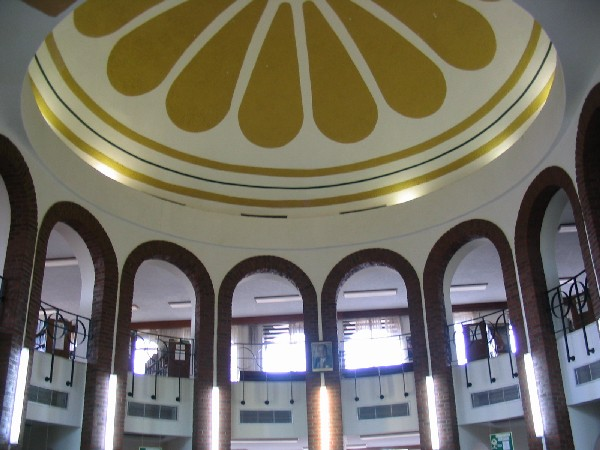 Photograph taken by Jack Curran